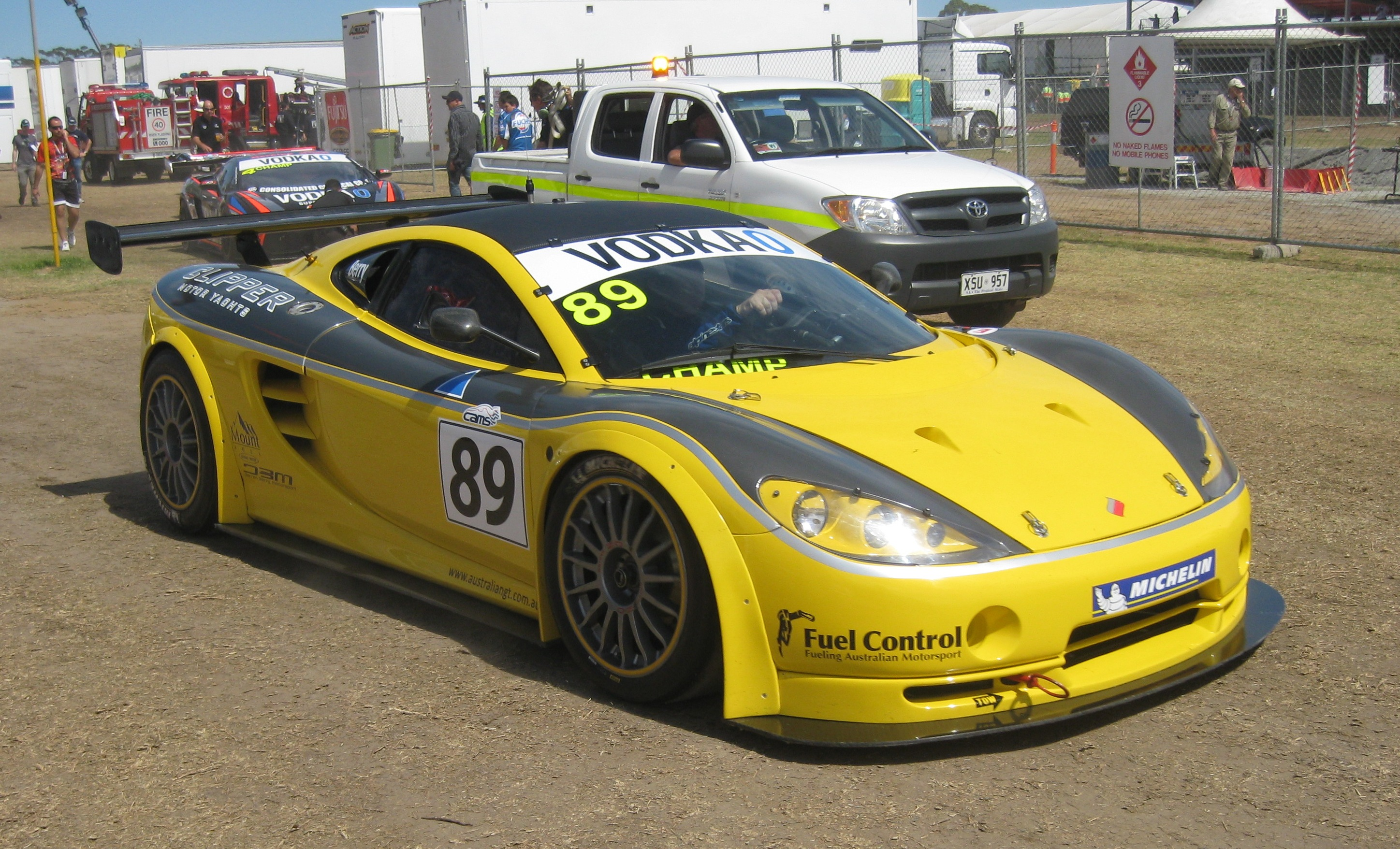 The Ascari ZK1 GT3 of Darren Berry at the Adelaide Parklands Circuit for the opening round of the 2010 Australian GT Championship.